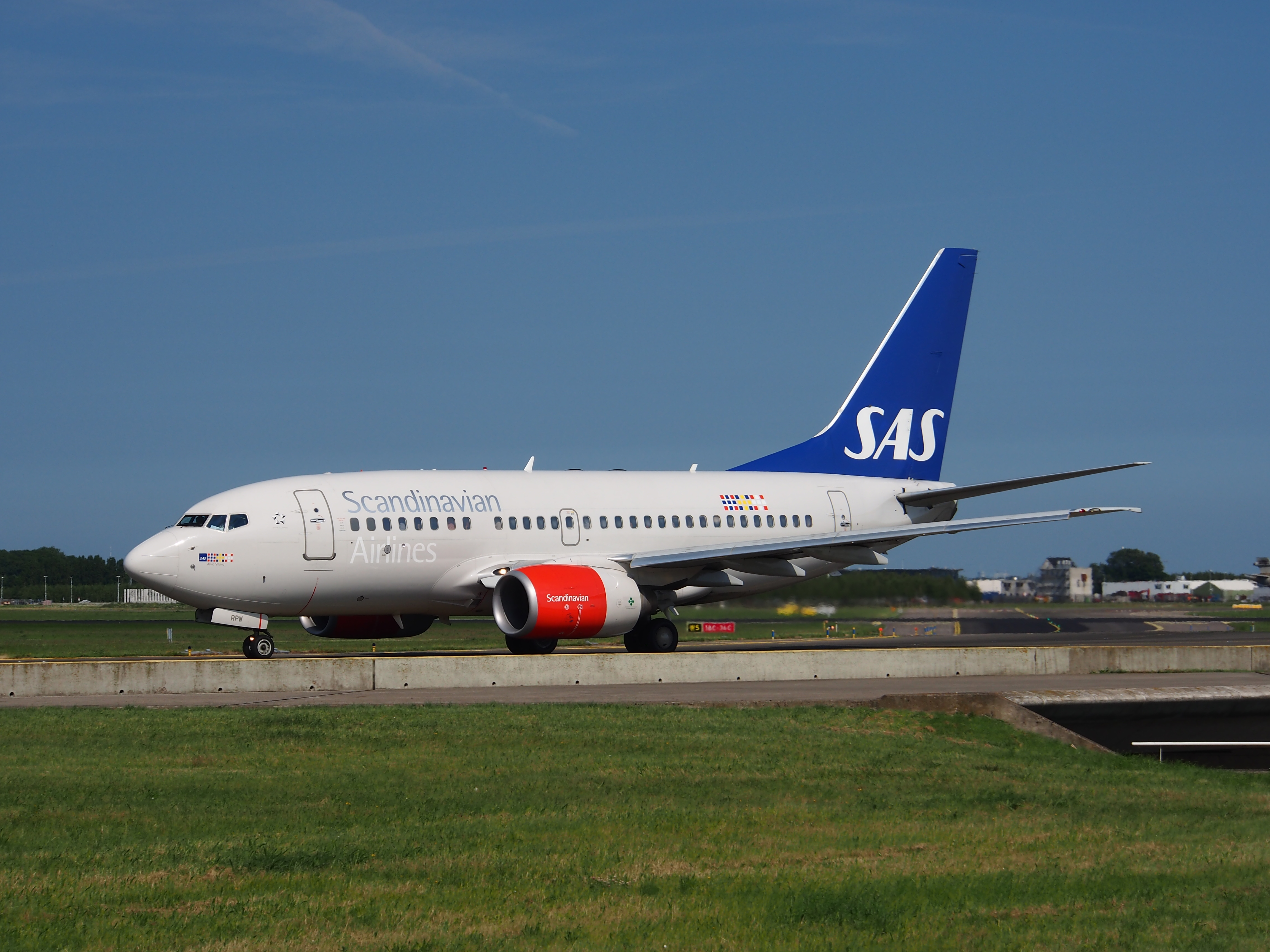 Photographed at Amsterdam airport Schiphol, the Netherlands. OLYMPUS DIGITAL CAMERA